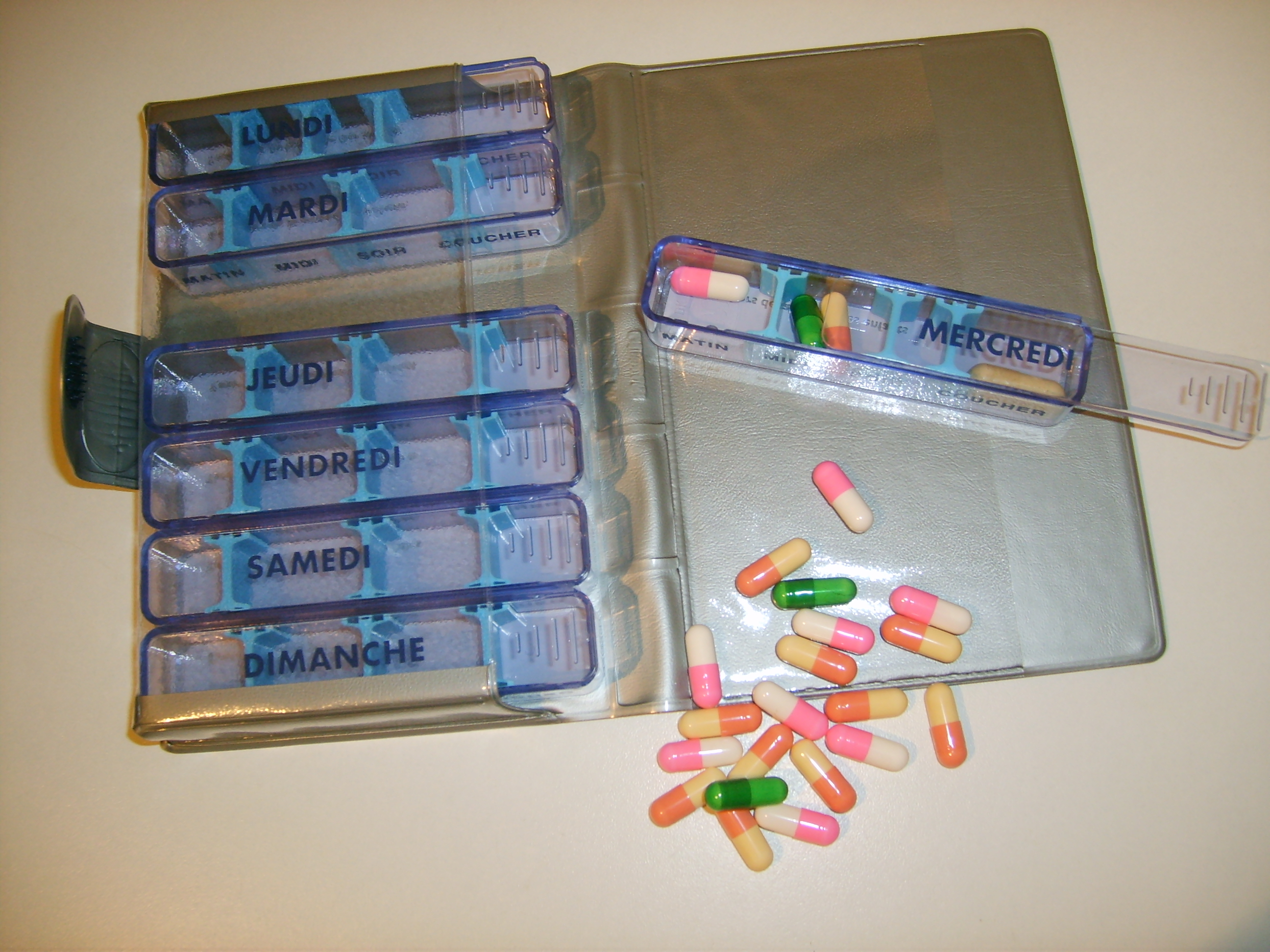 pillbox, medication organizer. Publish by= User:Stephane8888 Self made